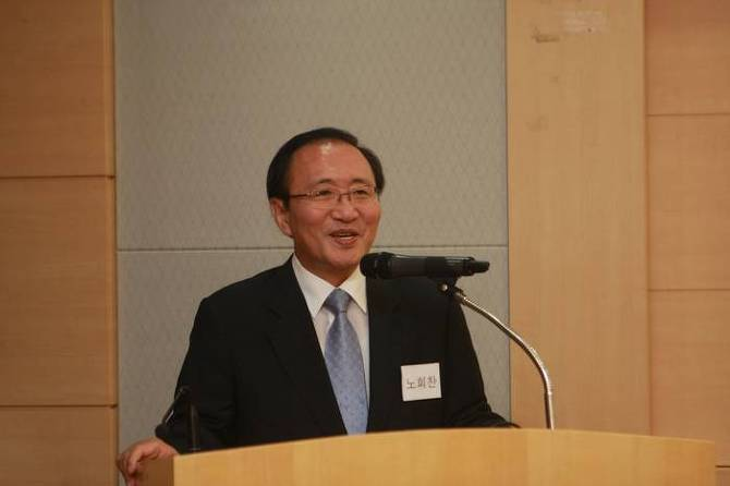 Roh Hoechan in 2014